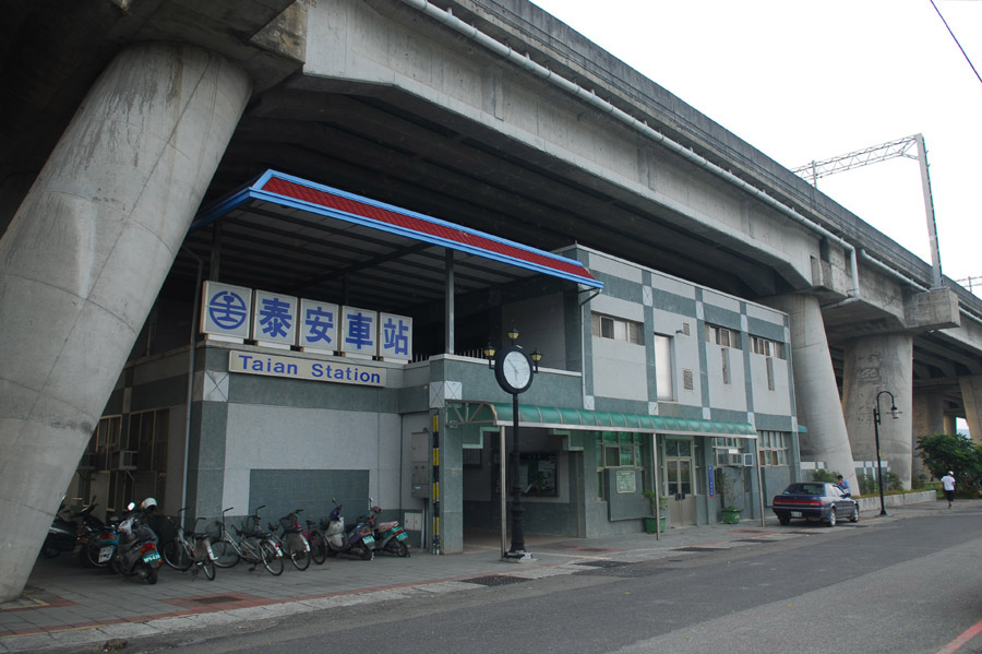 TaiAn Station is a local train station of TaiChung Line, part of Taiwan's Western main rail line. It's located within the boundary of HouLi Township, TaiChung County. The current TaiAn station is a newly-built station following the re-routing of the TaiChung Line.